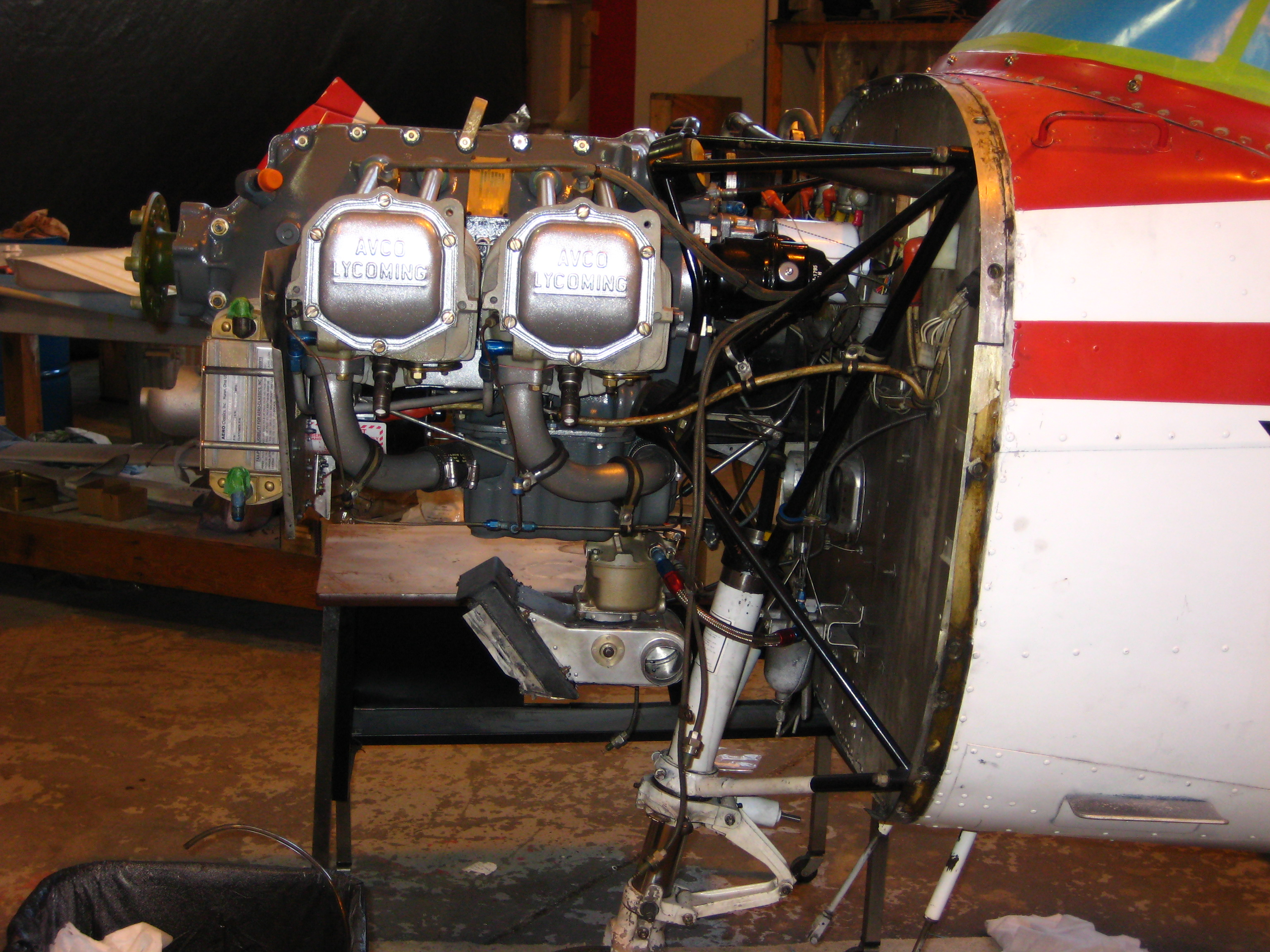 Pilot's side of a Cessna 152 engine. This plane is in the Victoria Flying Club's hangar for a large overhaul, so I grabbed some pics of the pointy end while the cowlings are out of the way. Shot after dark with (dismal) overhead lighting and a small flash, so some parts are dark. Visitors here via Google Image Search might be interested in my other Cessna Reference Shots, and should also please note the CC-BY license it's available under. Thanks!